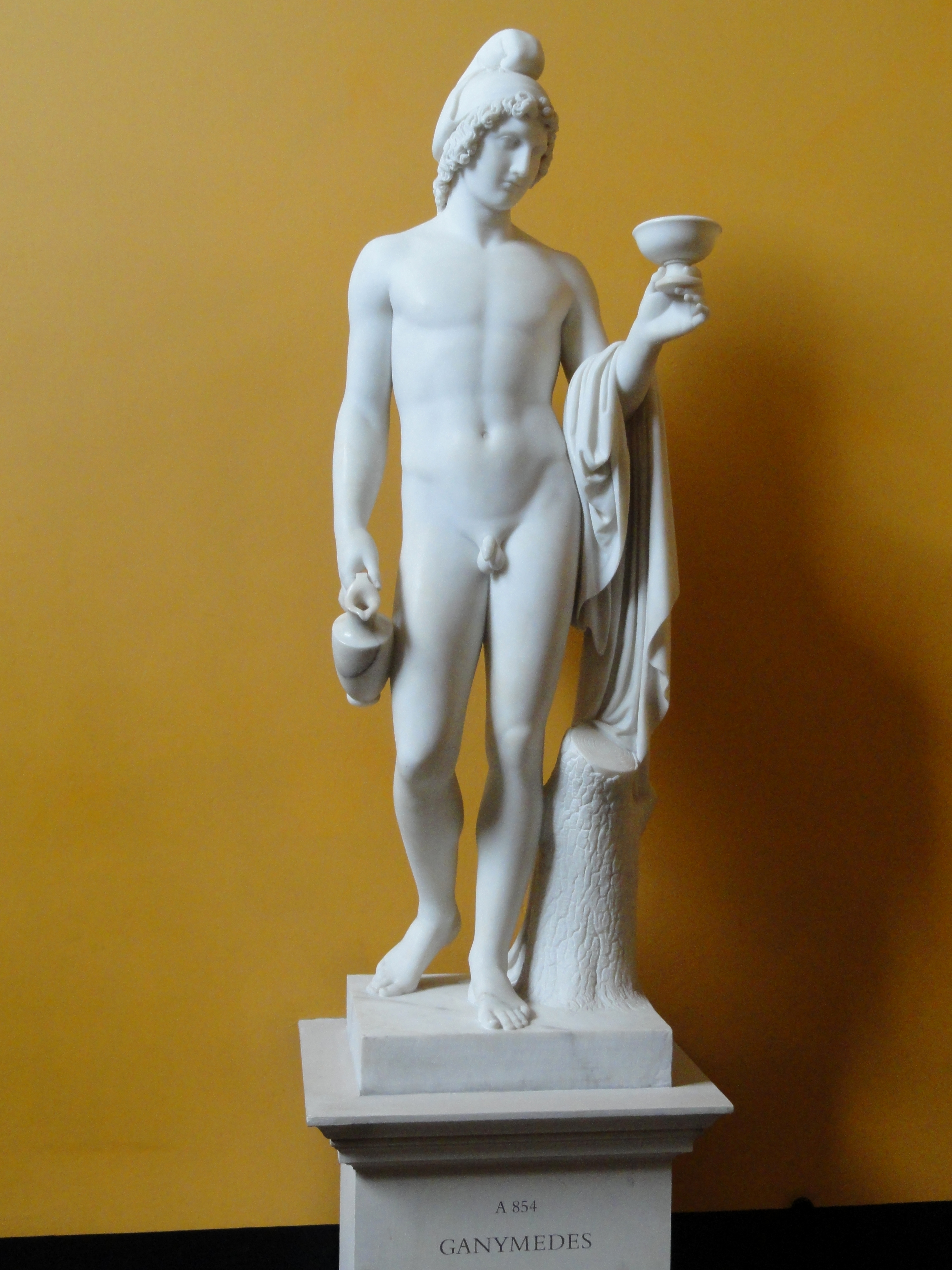 Sculpture in Thorvaldsens Museum, Copenhagen, Denmark. Sculptor: Bertel Thorvaldsen (c. 1770-1844). This artwork is now in the public domain because the artist died more than 70 years ago.